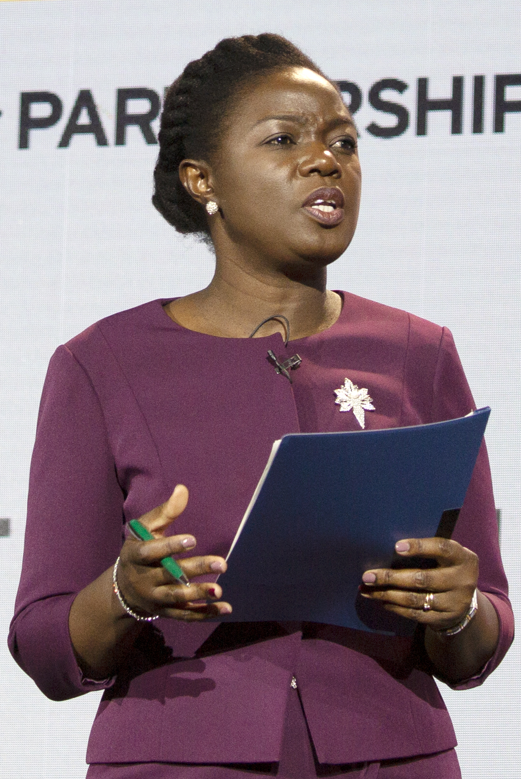 Lucy Quist, Managing Director - Technology Transformation, Morgan Stanley, and moderator of the UK-Africa Investment Summit.